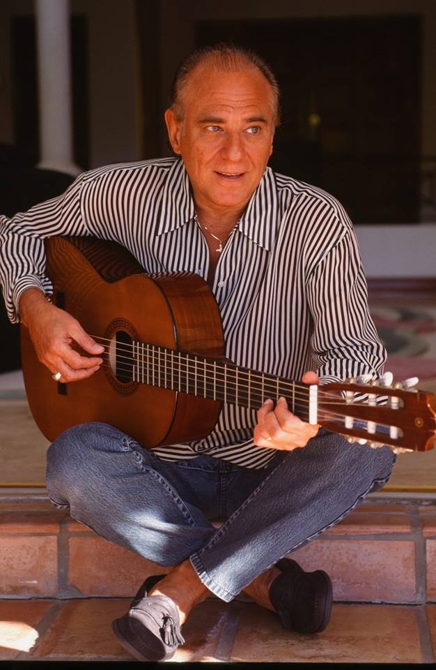 Roberto Livi es un productor y compositor de Argentina